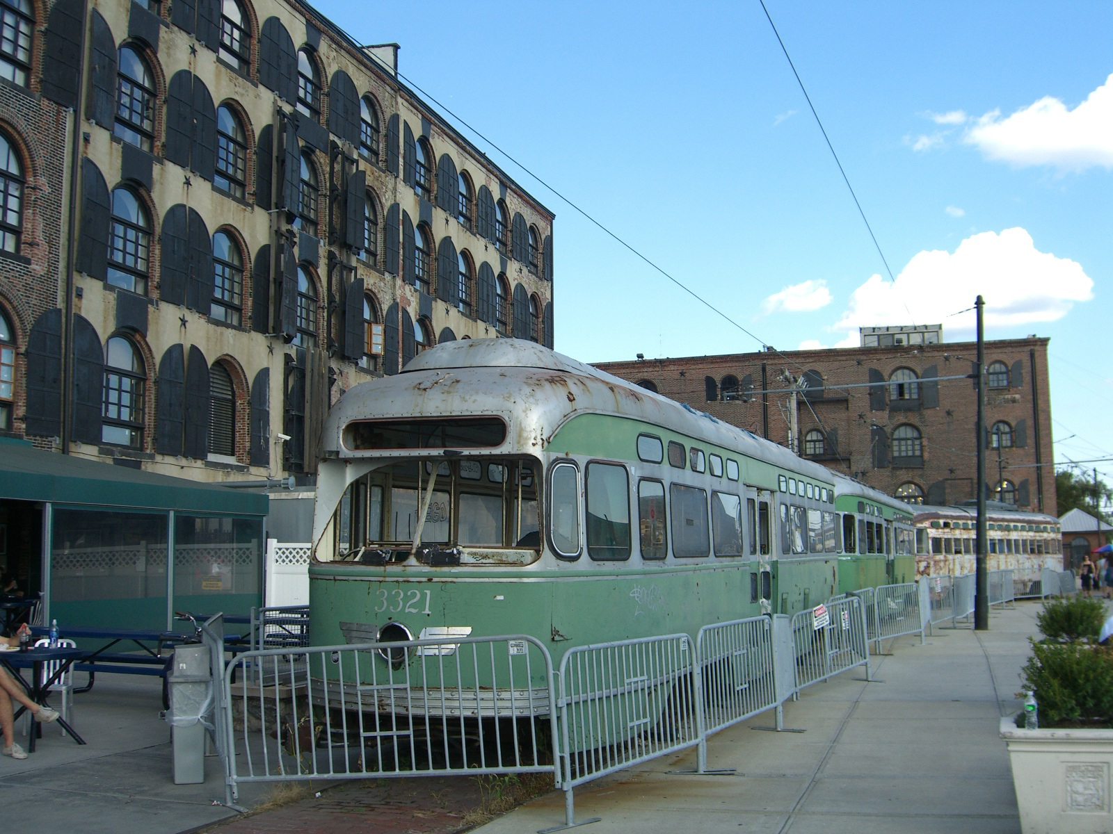 Defunct trams seen behind the Fairway supermarket in Red Hook, Brooklyn.